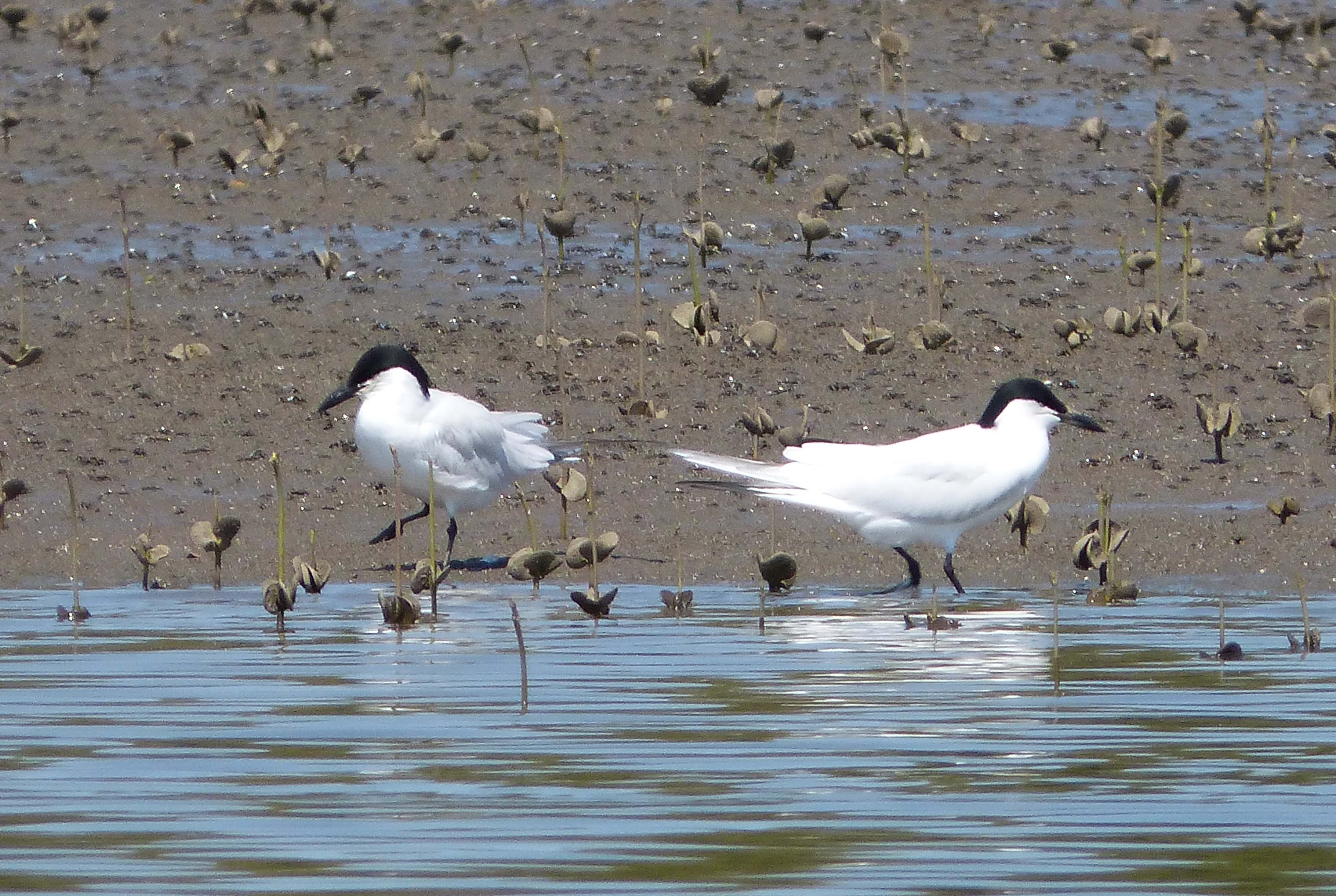 Australian Terns Gelochelidon macrotarsa, Redcliffe, Brisbane, QLD